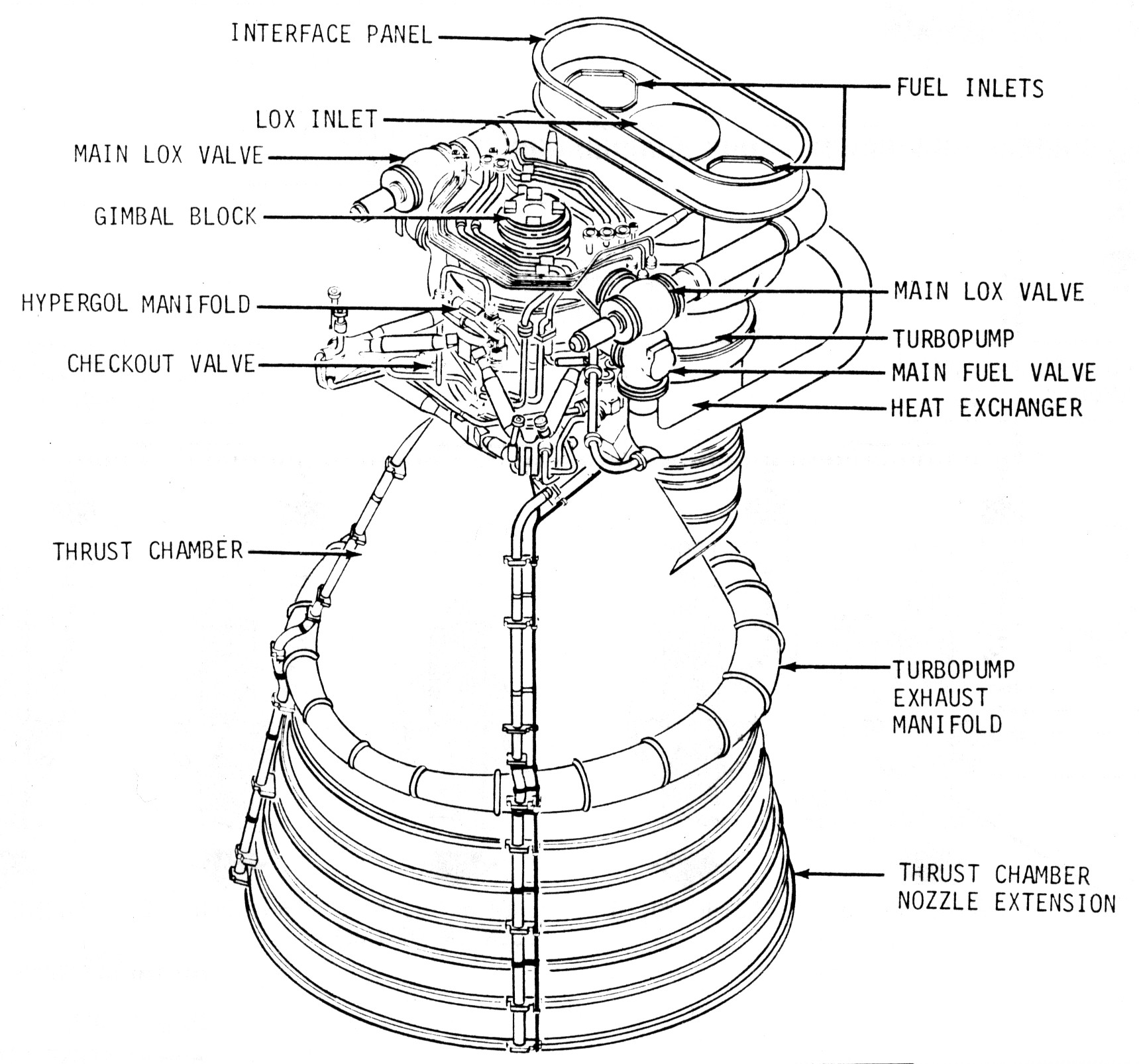 Diagram of F-1 engine